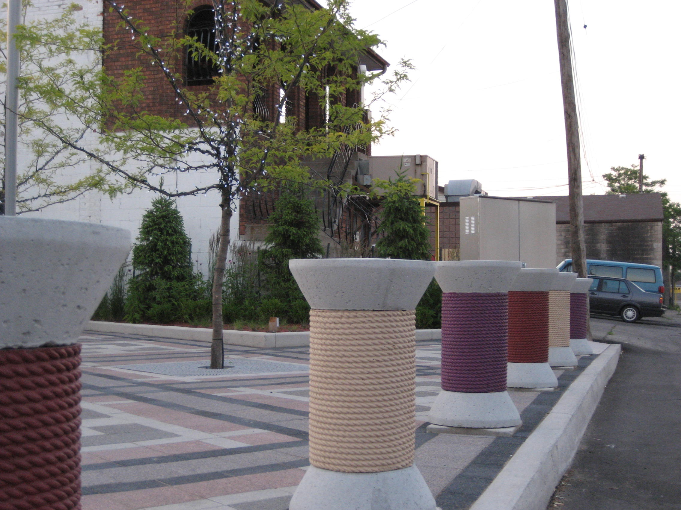 East Kiwanis Place, Textile District, Ottawa Street North, Hamilton, Ontario